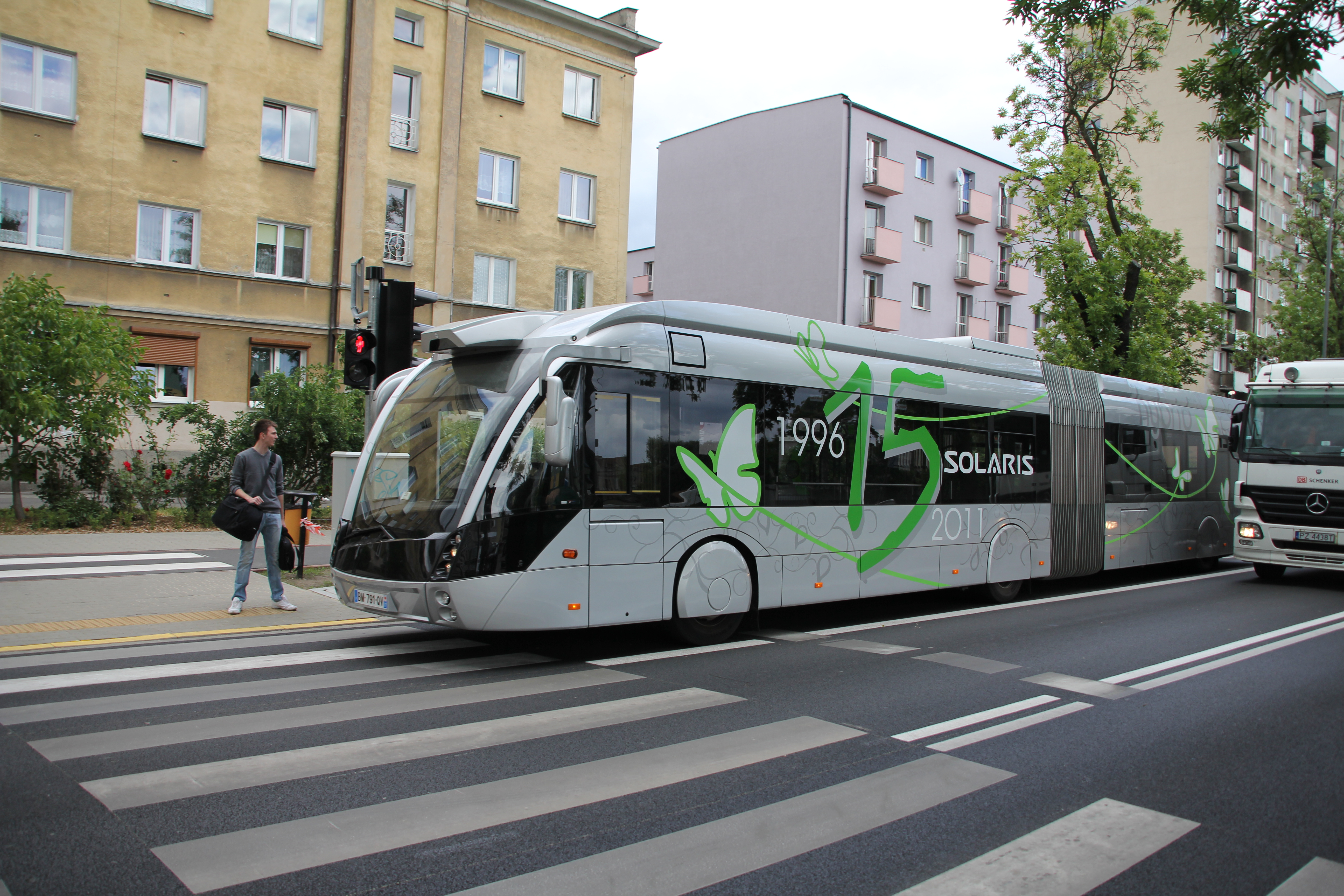 Solaris Urbino 18 Hybrid MetroStyle bus (reg. BM-791-QV, built 2011) in Poznań on Bukowska Street, Poland.